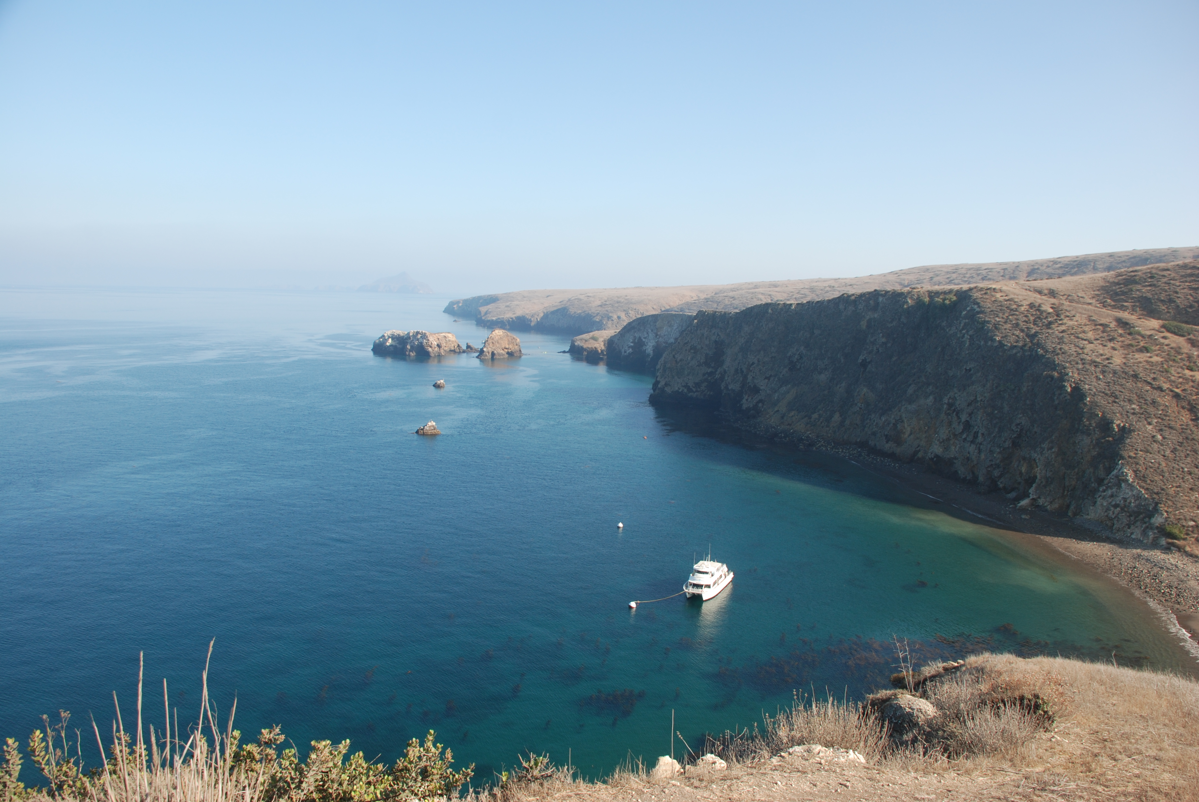 Scorpion Anchorage, view from the Western side, Santa Cruz Island, California, USA